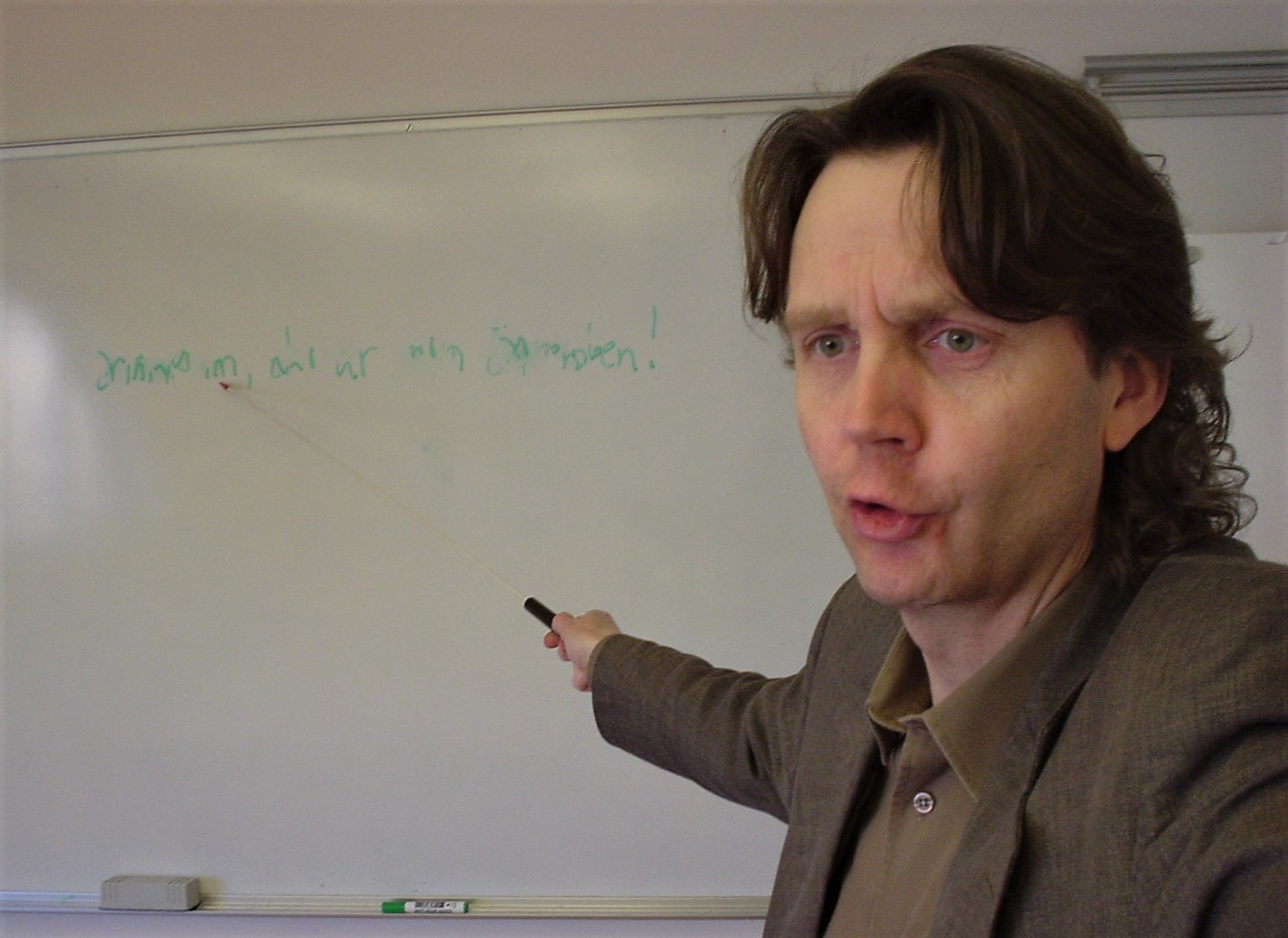 Göran Lundberg, Swedish journalist and publisher, in 2007